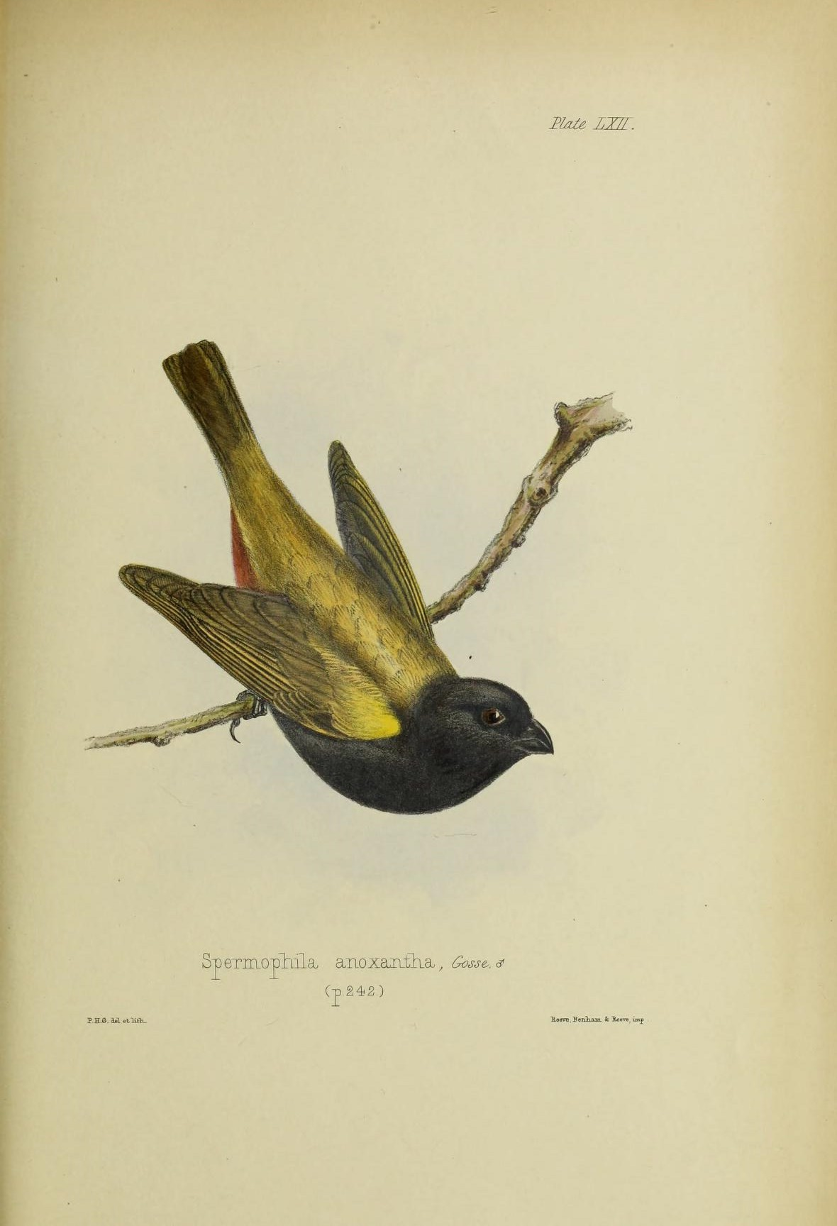 Illustrations of the birds of Jamaica.